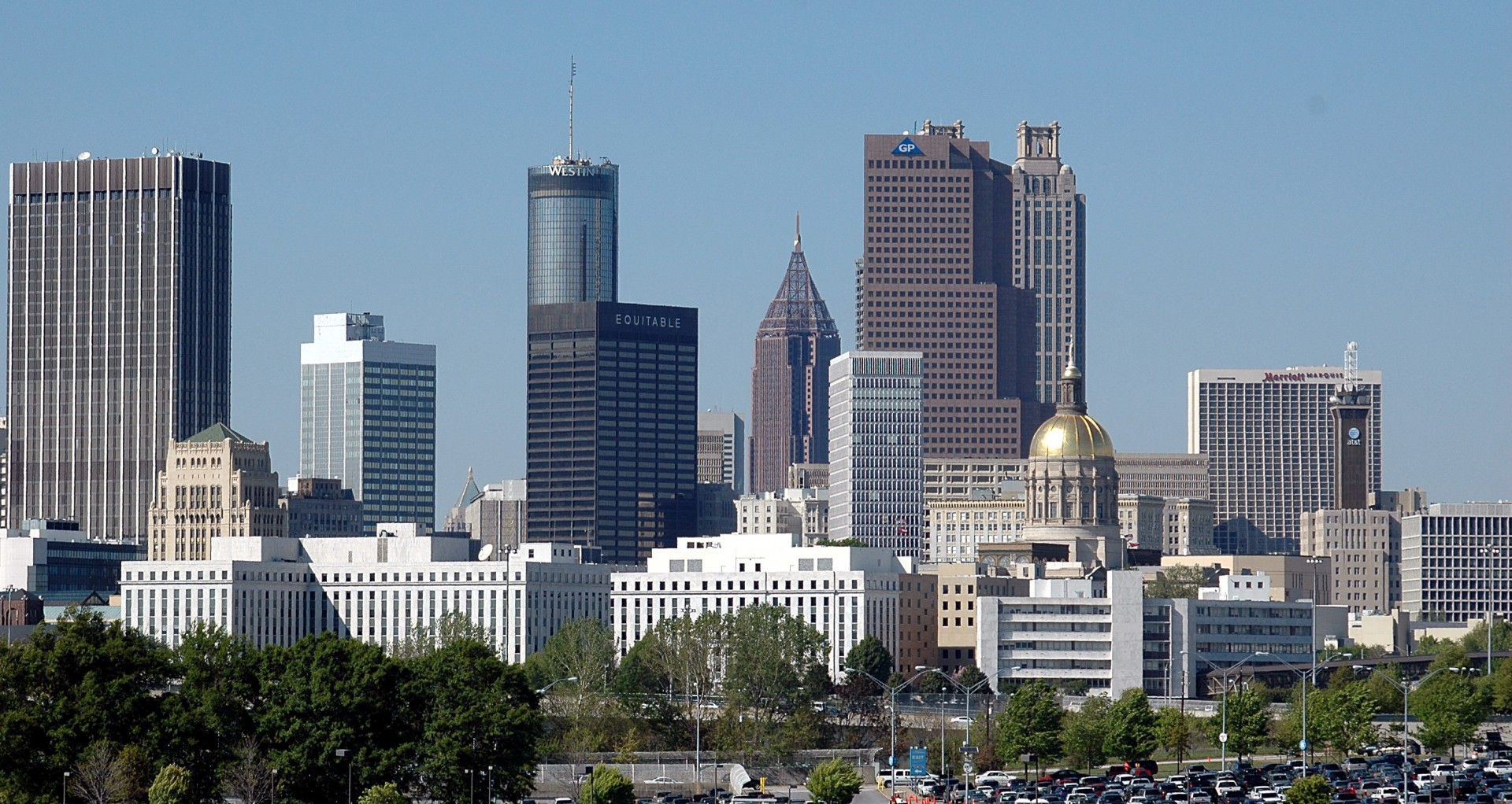 Atlanta, Georgia Cityscape View